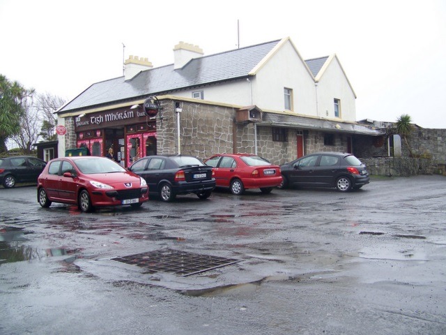 The we got it all store, Carna Many villages have a store like this. It is the post office, general store, bar and petrol station.